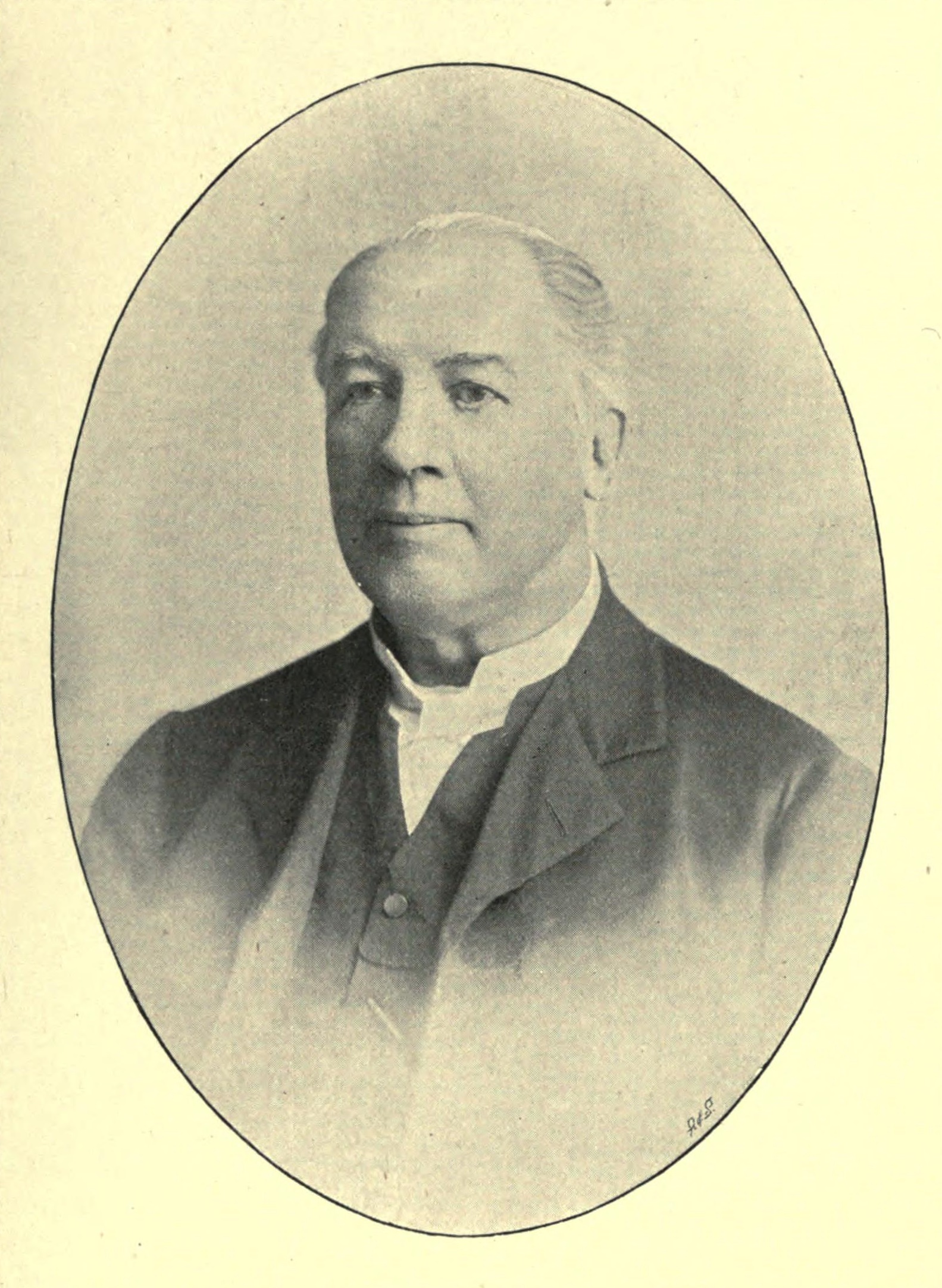 Portrait of John Hall